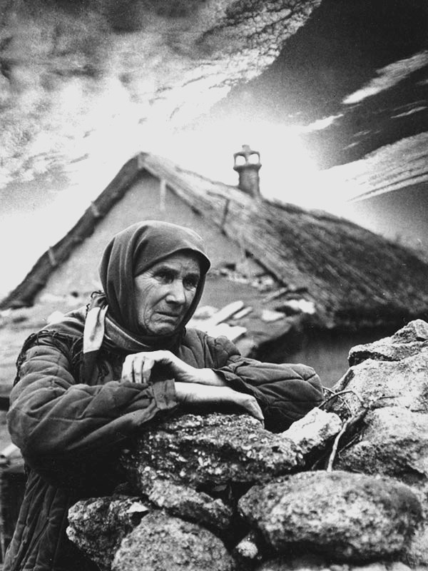 "Grief" (70th years).